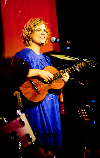 Olof in San Francisco.